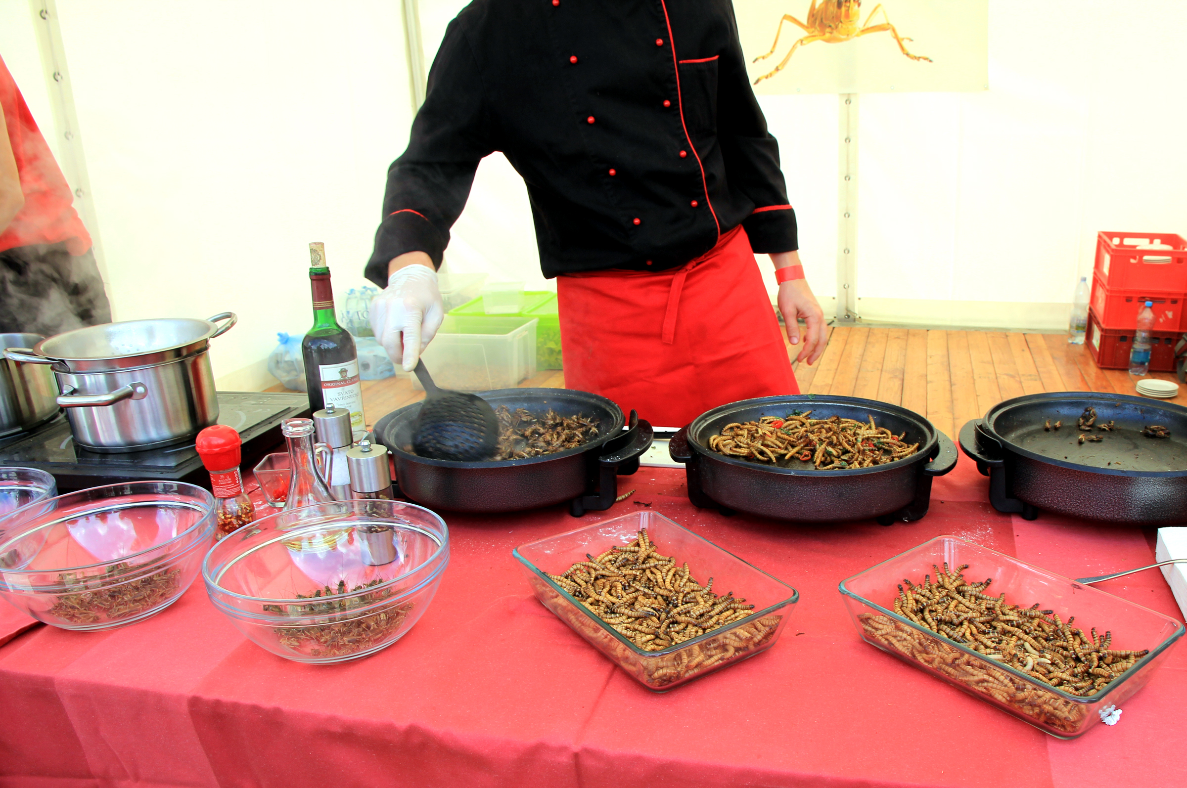 Stand with food prepared from insects (worms, beatles) on festival of food and drinks Foodparade in Troja Palace, Prague 2015, Czech Republic